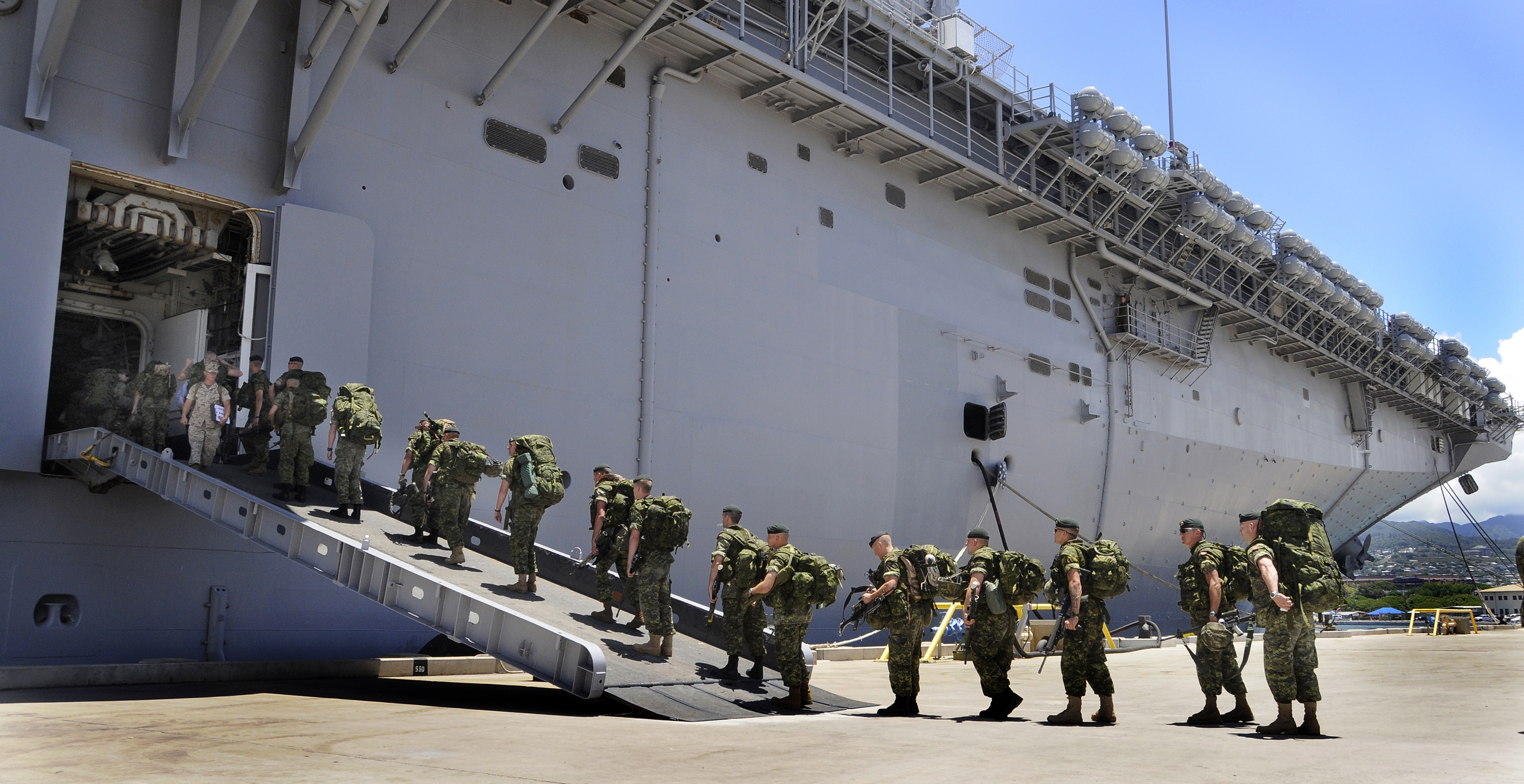 PEARL HARBOR, Hawaii (July 10, 2008) Canadian soldiers assigned to the "Red Devils" of A Co., 1st Battalion Princess Patricia's Canadian Light Infantry, board the amphibious assault ship USS Bonhomme Richard (LHD 6) at Naval Station Pearl Harbor to participate in the Rim of the Pacific (RIMPAC) maritime exercise. RIMPAC is the world's largest multinational exercise and is scheduled biennially by the U.S. Pacific Fleet. Participants include the U.S., Australia, Canada, Chile, Japan, the Netherlands, Peru, Republic of Korea, Singapore, and the United Kingdom. US Navy photo by Mass Communication Specialist First Class Michael Moriatis (Released)